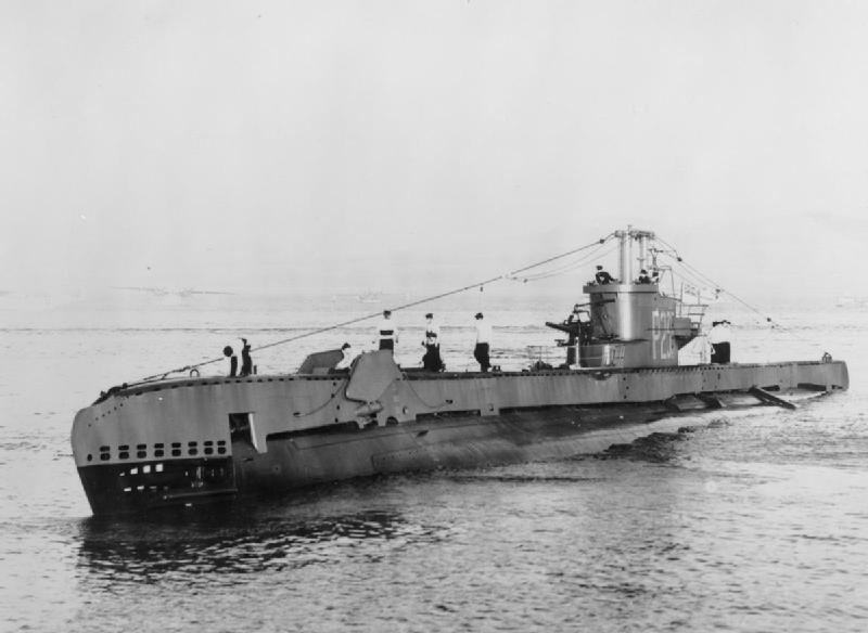 British S class submarine HMSM STRONGBOW underway in the Clyde.